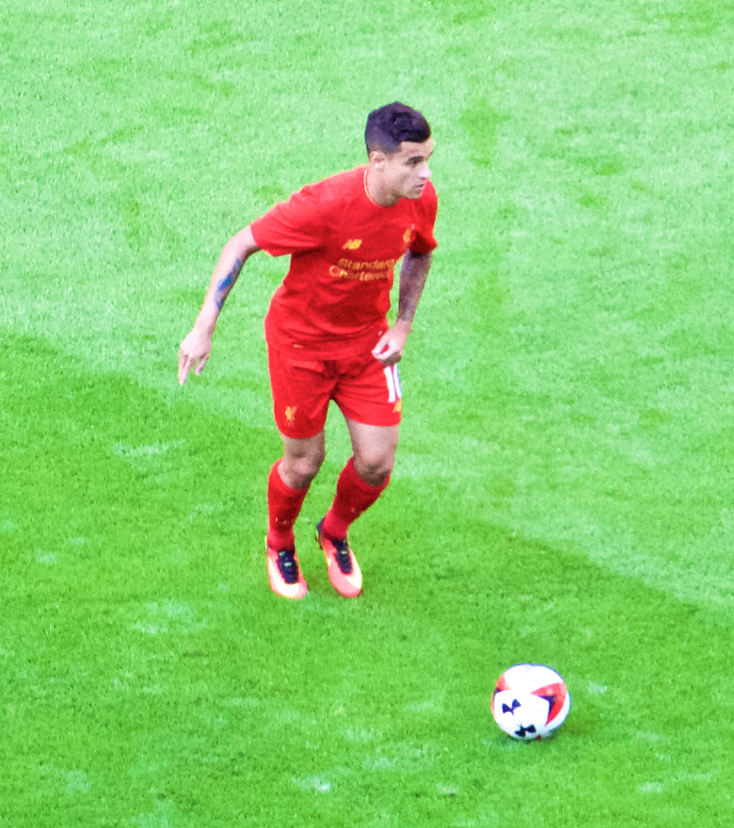 Coutinho